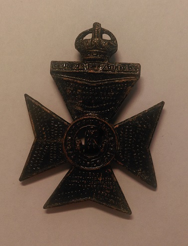 Photo of King's Royal Rifle Corps Cap Badge from personal collection